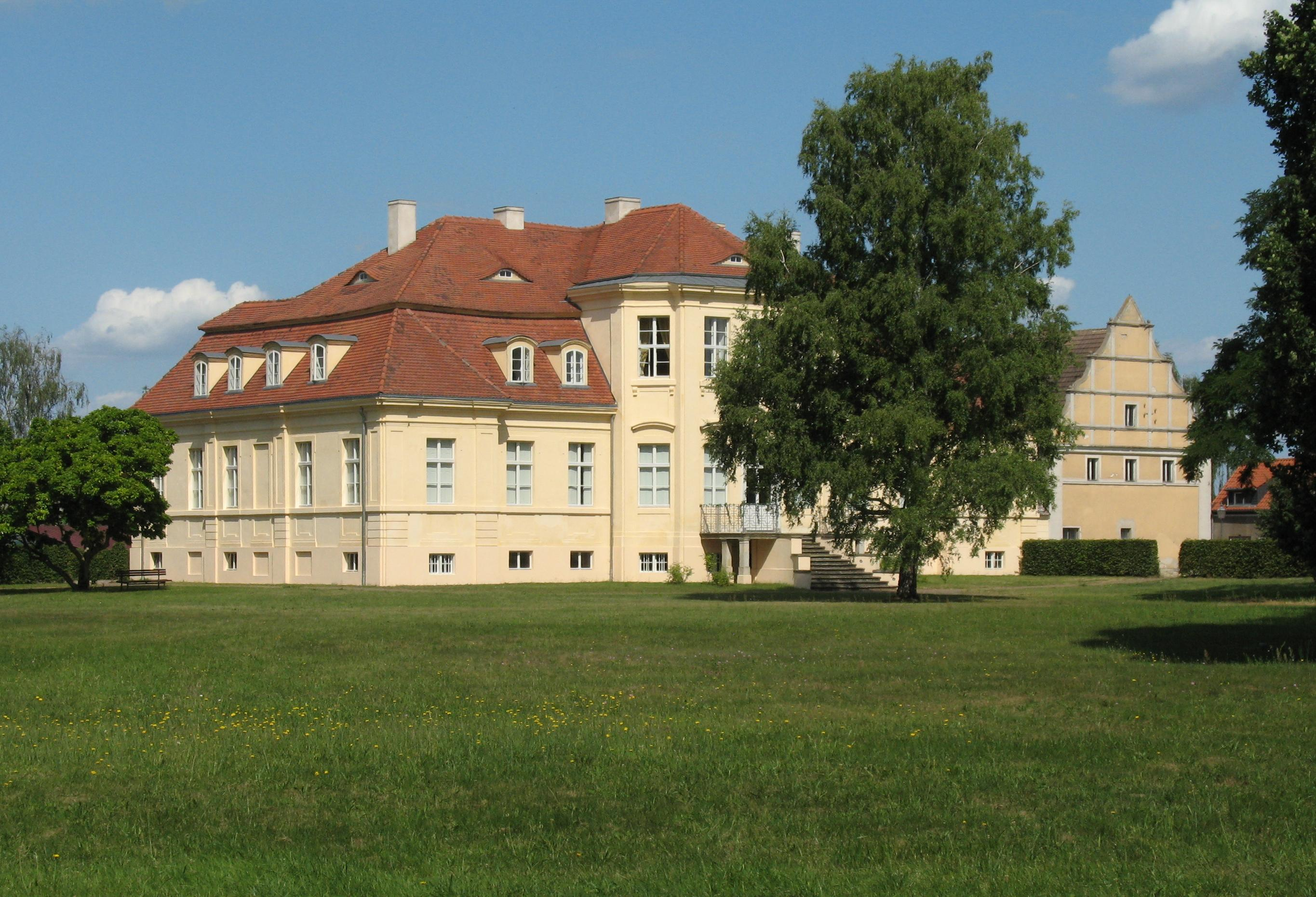 Park, manor house, and farm house in Reckahn in Brandenburg, Germany